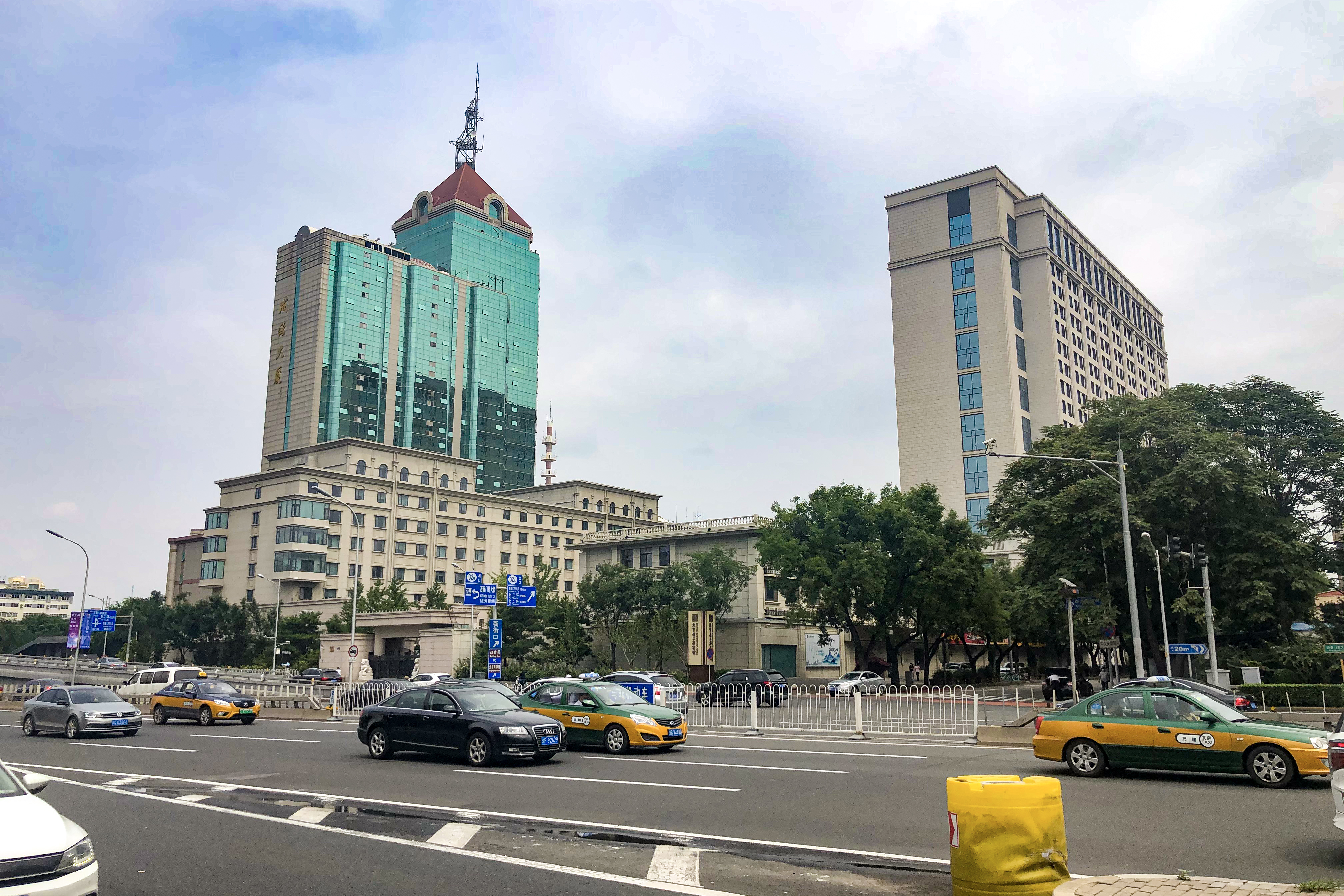 Part of Xinjiekou Sdt.